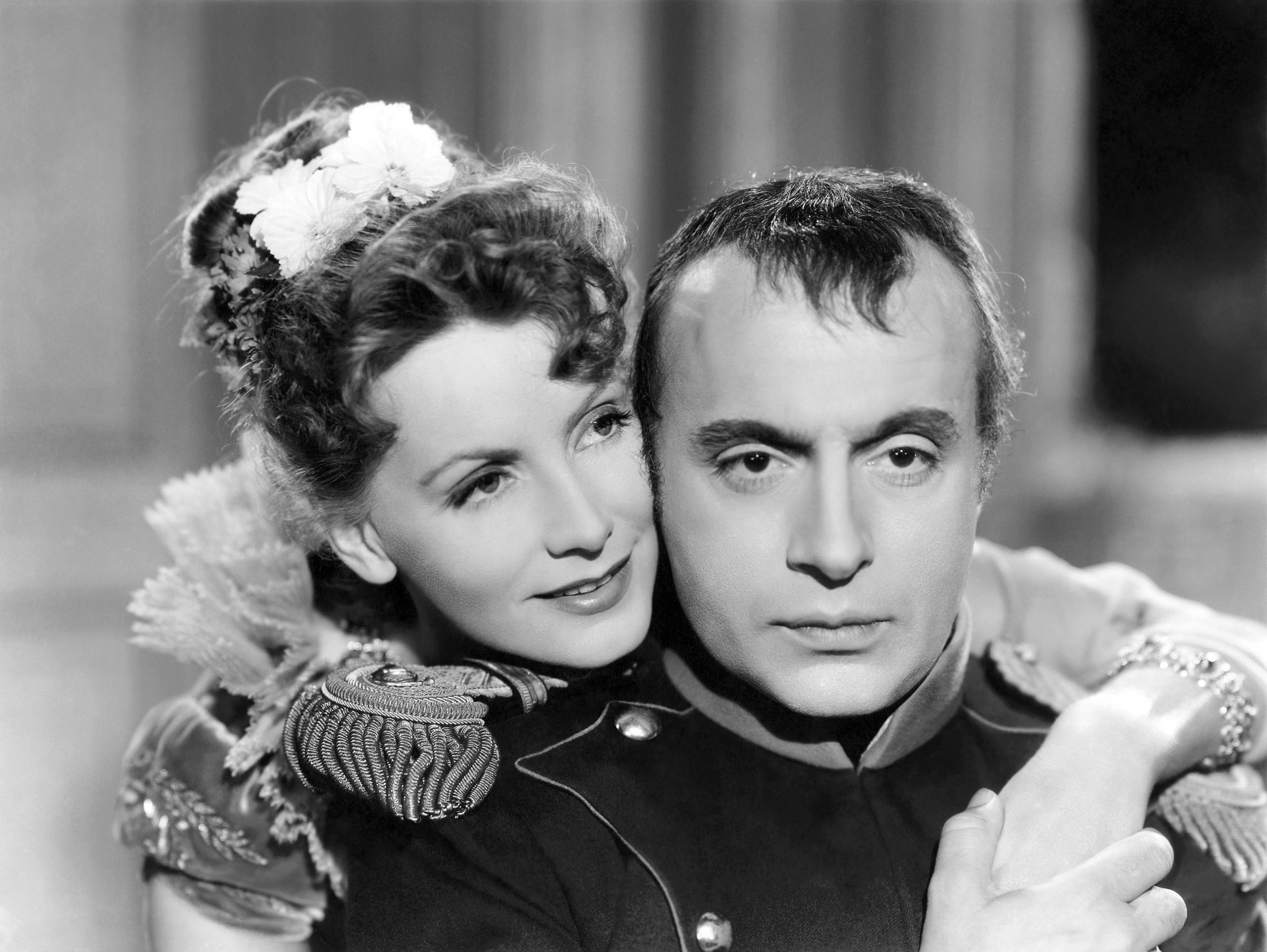 Photo from an ad in Modern Screen for the film Conquest with Greta Garbo and Charles Boyer.